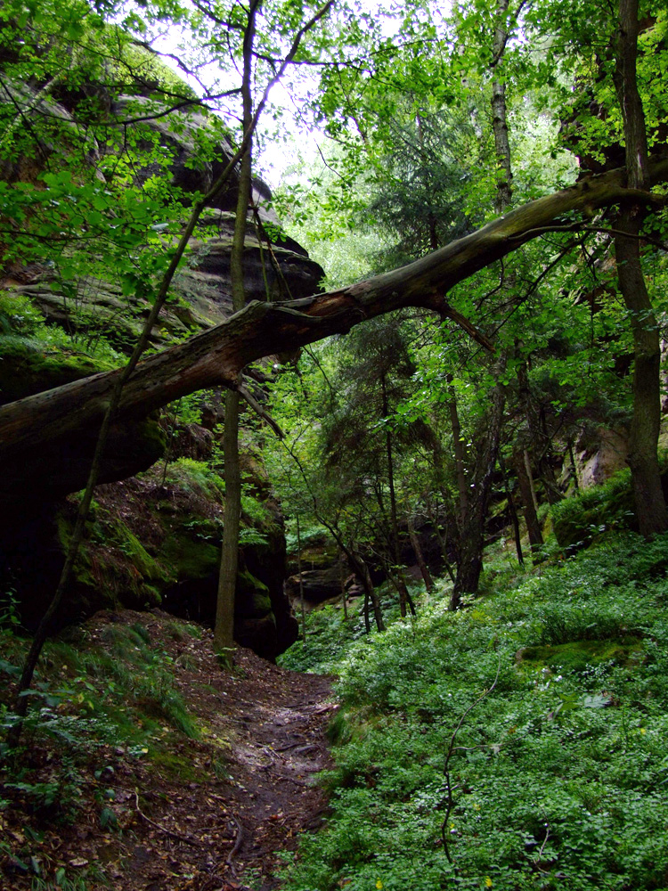 Peklo near Ceska Lipa, Czech Republic